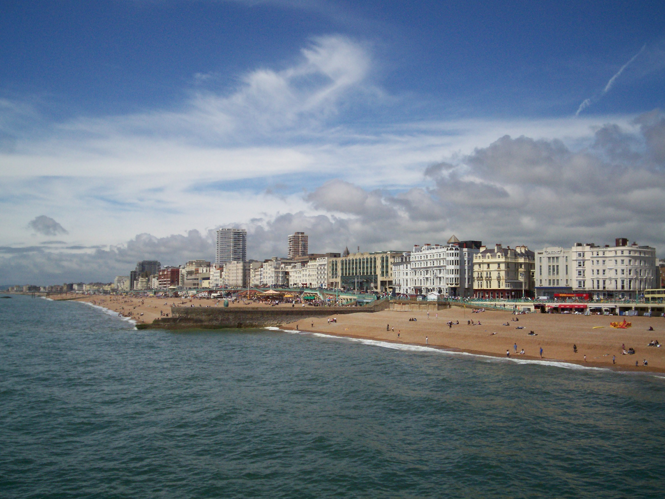 Brighton, UK